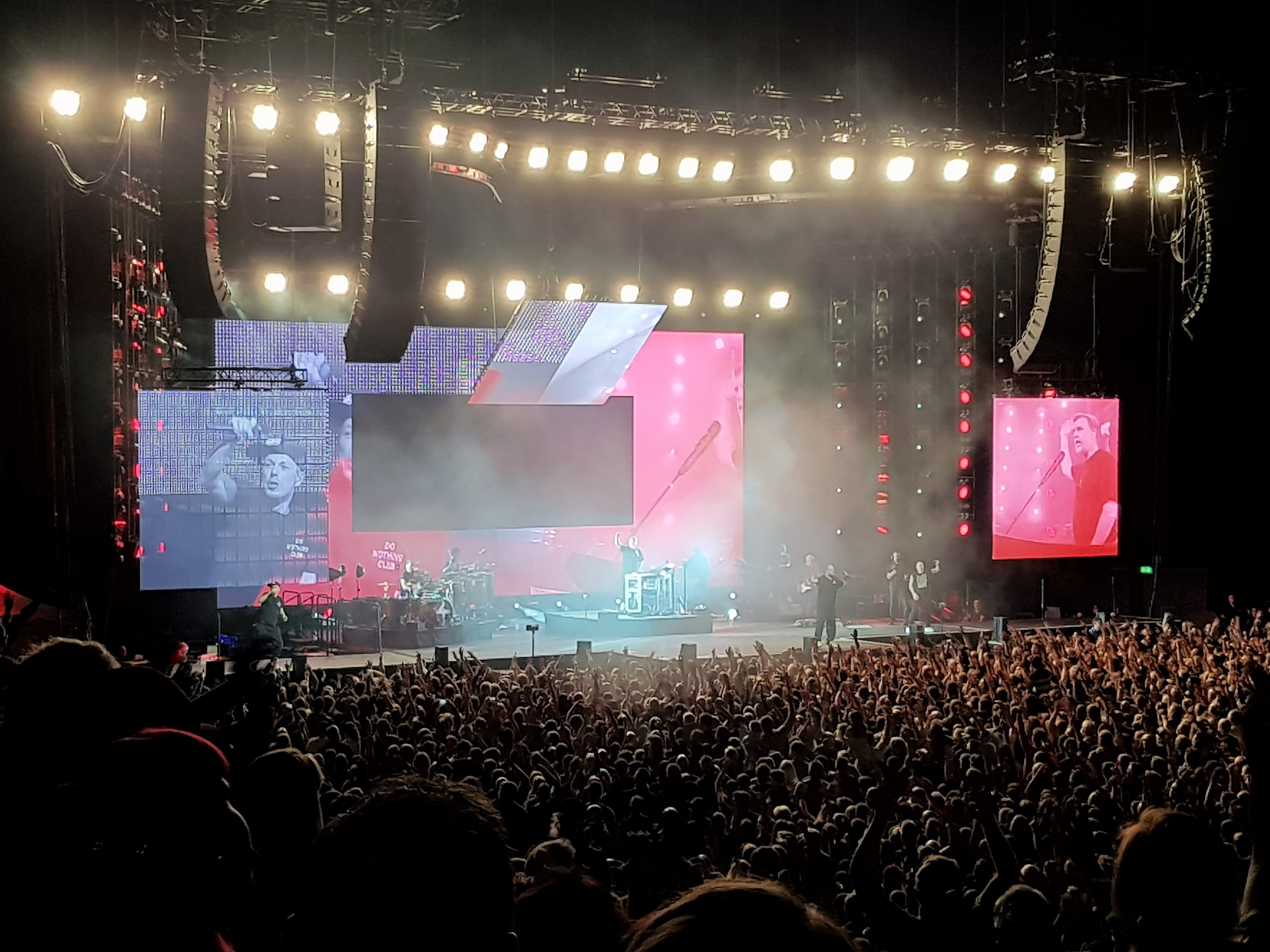 Fanta4-Konzert 2019 in Köln